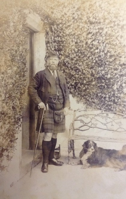 Photo of James Small (1835-1900), Laird of Dirnanean